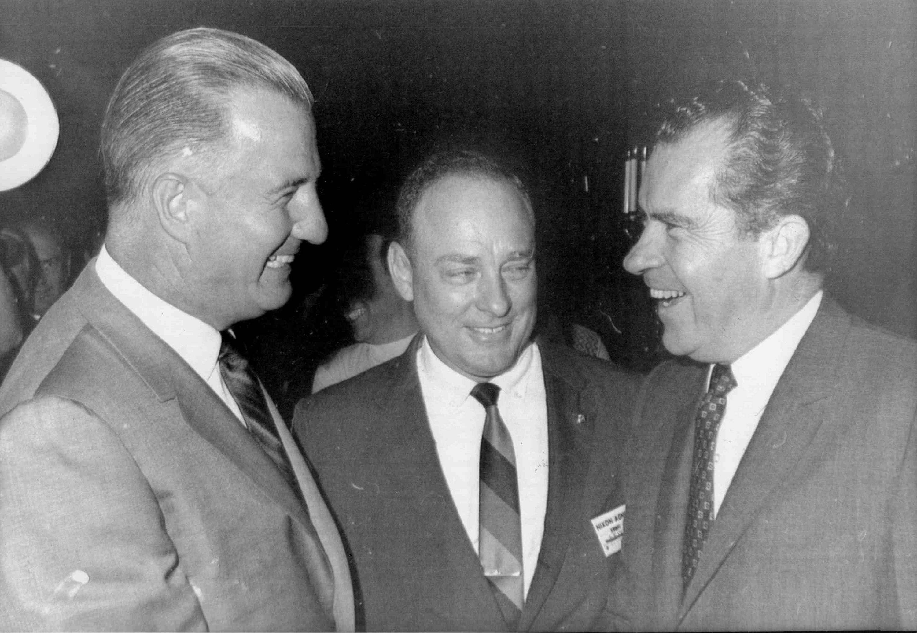 Savannah, Ga,. mayor J. Curtis lewis meets with G O.P. Presidential nominee Richard Nixon and Nixon's running mate Gov. Spiro Agnew at the Bahia Hotel at mission Bay, Calif. credit: Argenta purchased from Argenta images on 12/16/13